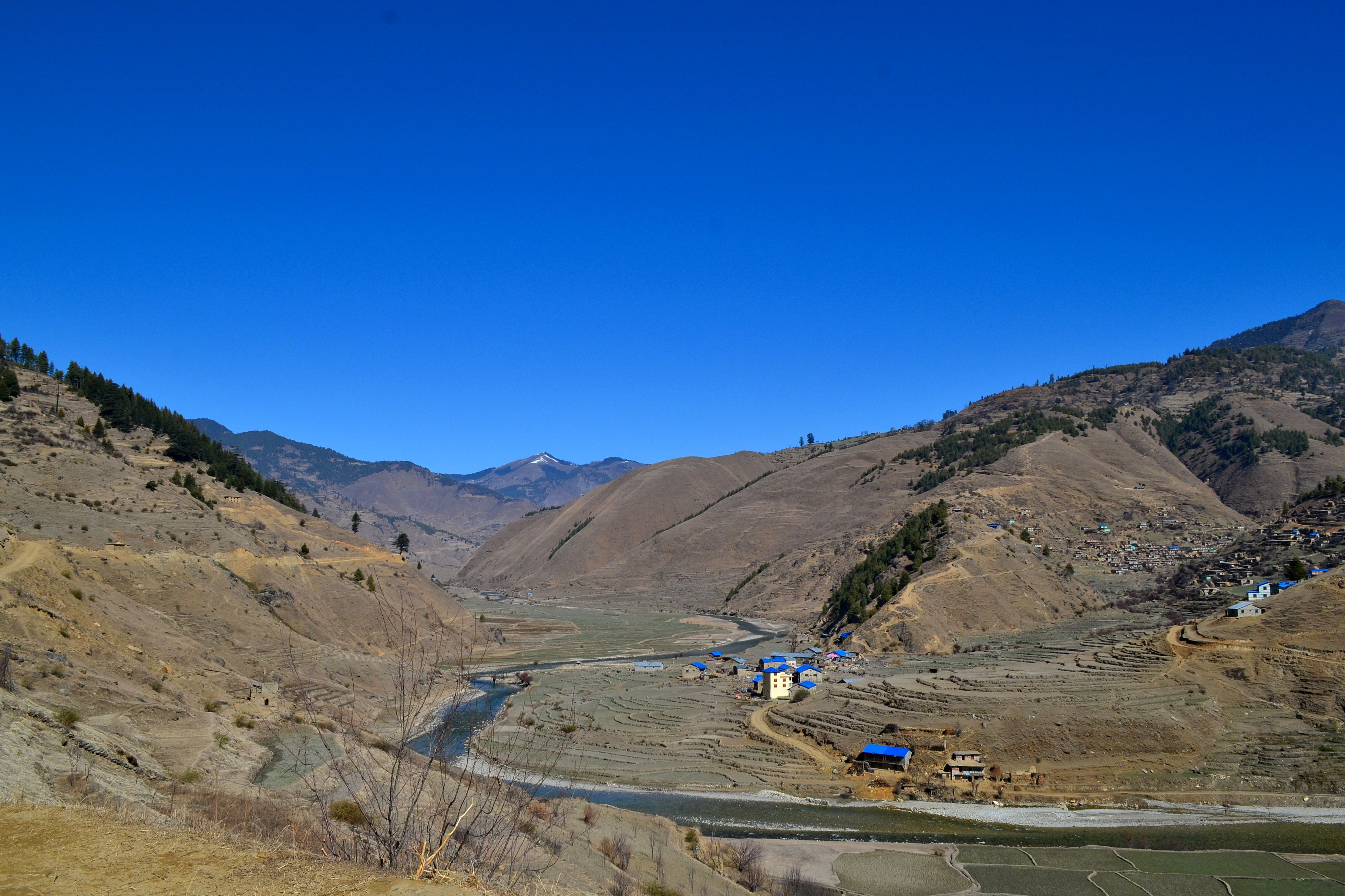 Historically important place that is proposed for cultural sites to UNESCO by Archeological department of Nepal o 2008 A.D